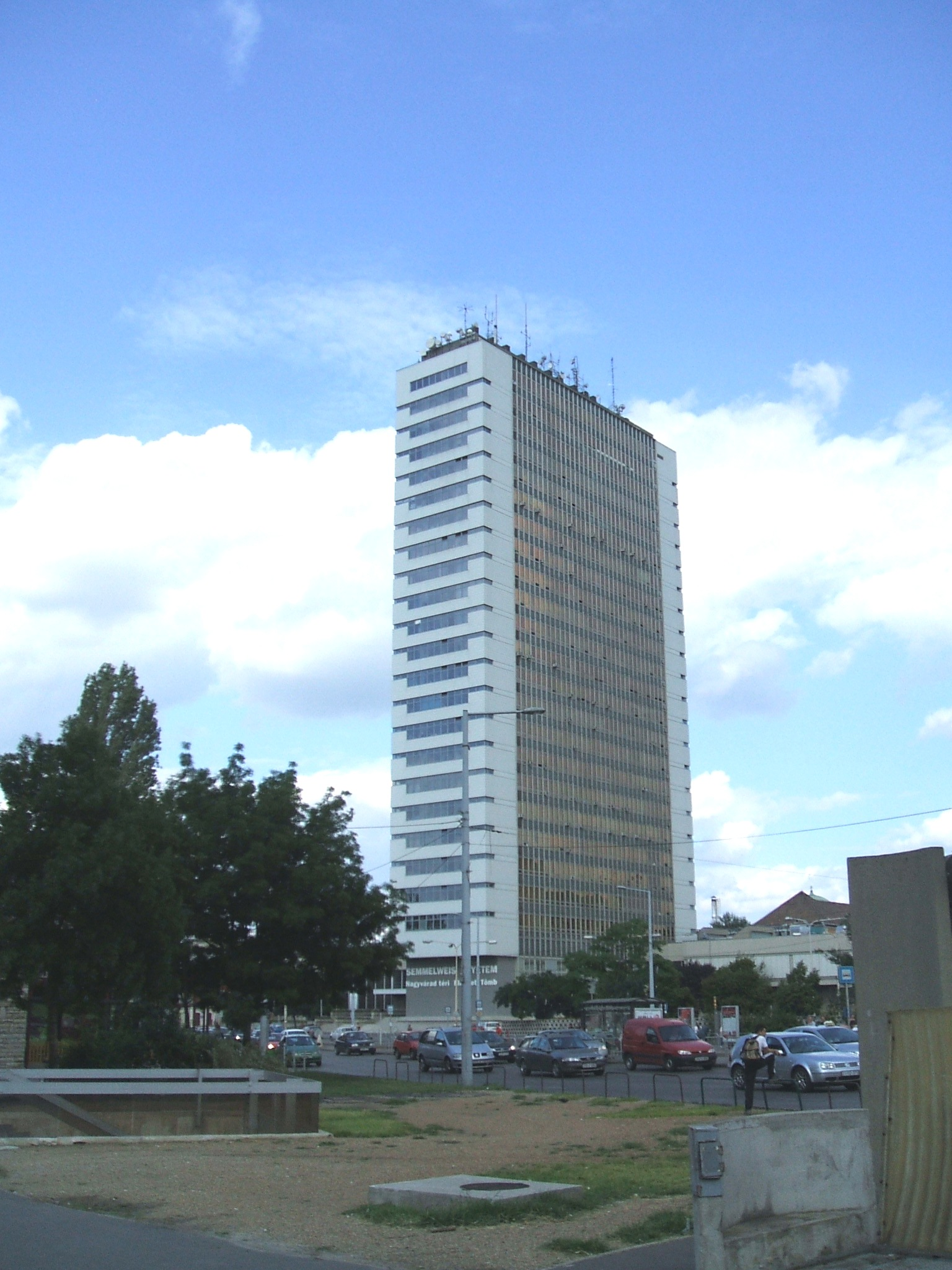 SOTE Tower (Semmelweis University Theory Block of Nagyvárad Square), Budapest, Hungary